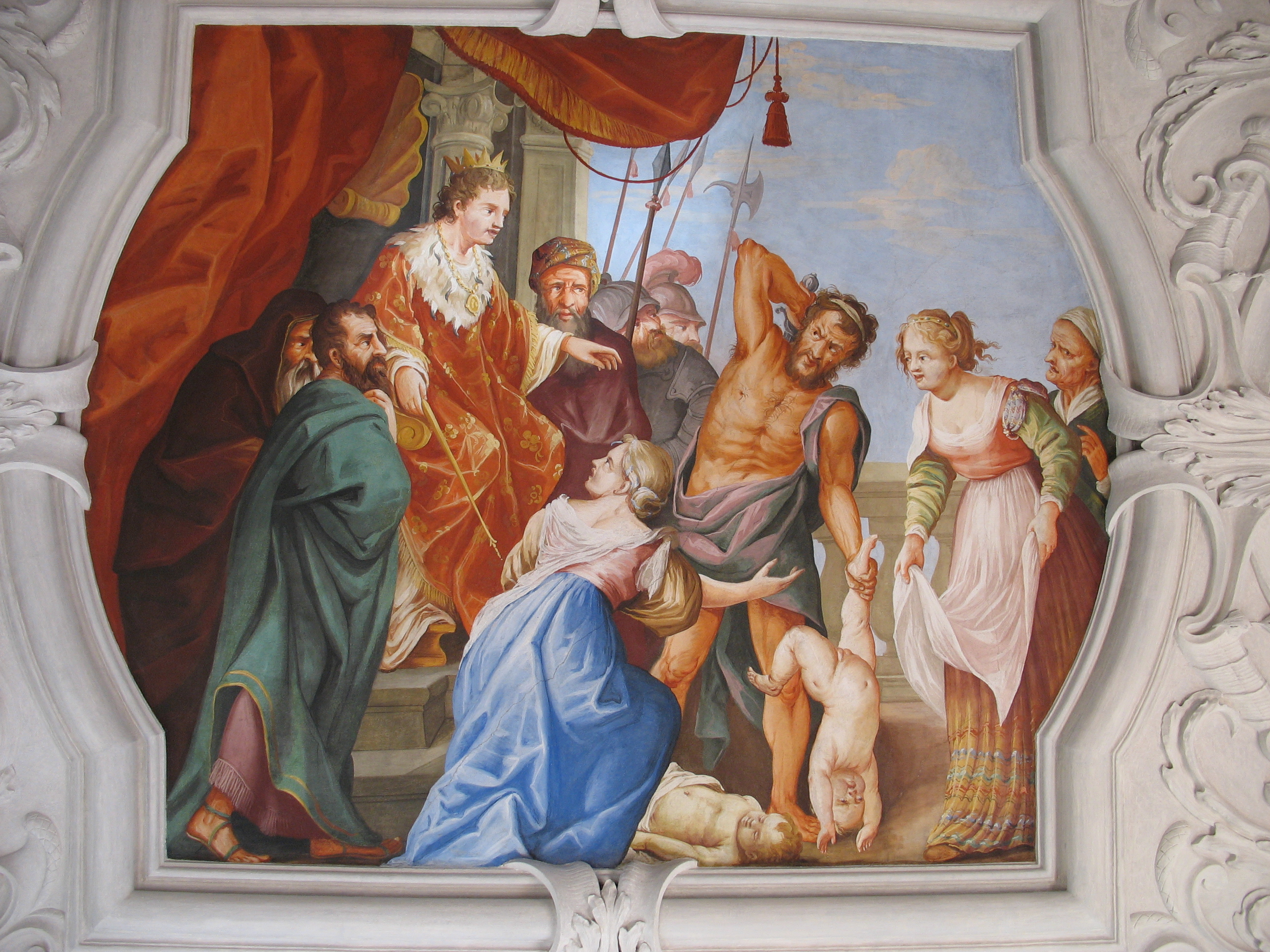 Judgment of Solomon. Pilgrimage church of Frauenberg in Styria (Austria), ceiling fresco in the rectory ("emperor's room"). Unknown 17th century (?) painter.